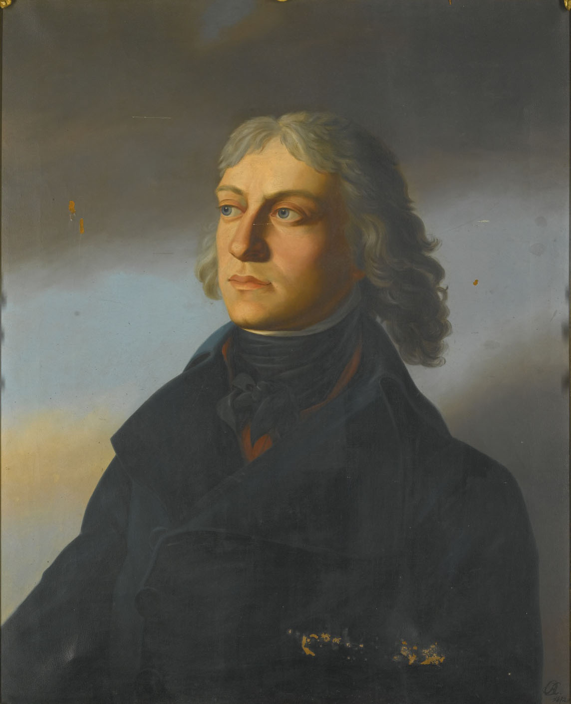 LUDWIG FRIEDRICH II FÜRST ZU SCHWARZBURG-RUDOLSTADT